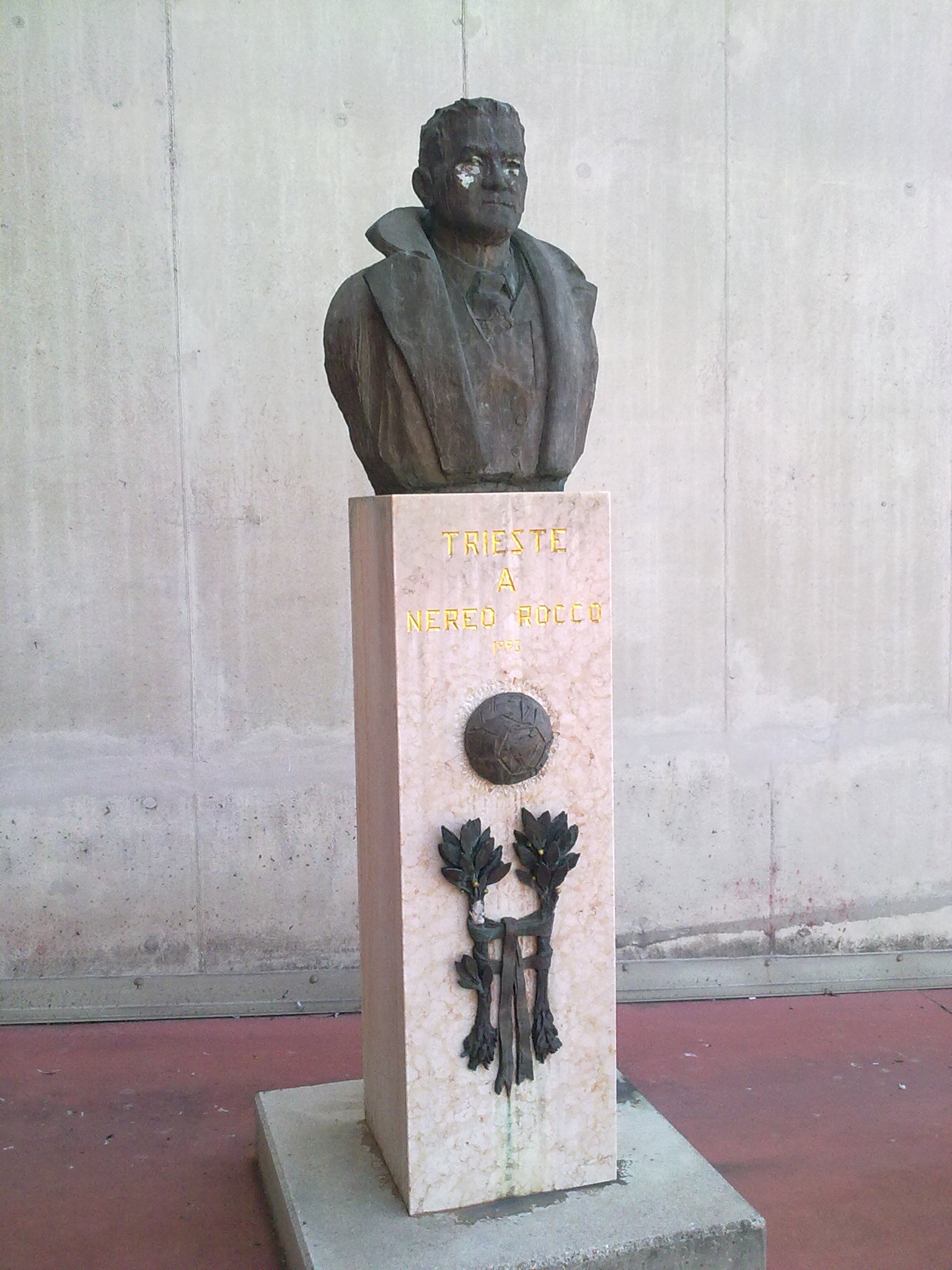 Nereo Rocco's half-bust at the Trieste's stadium (1992–), dedicated to his memory.